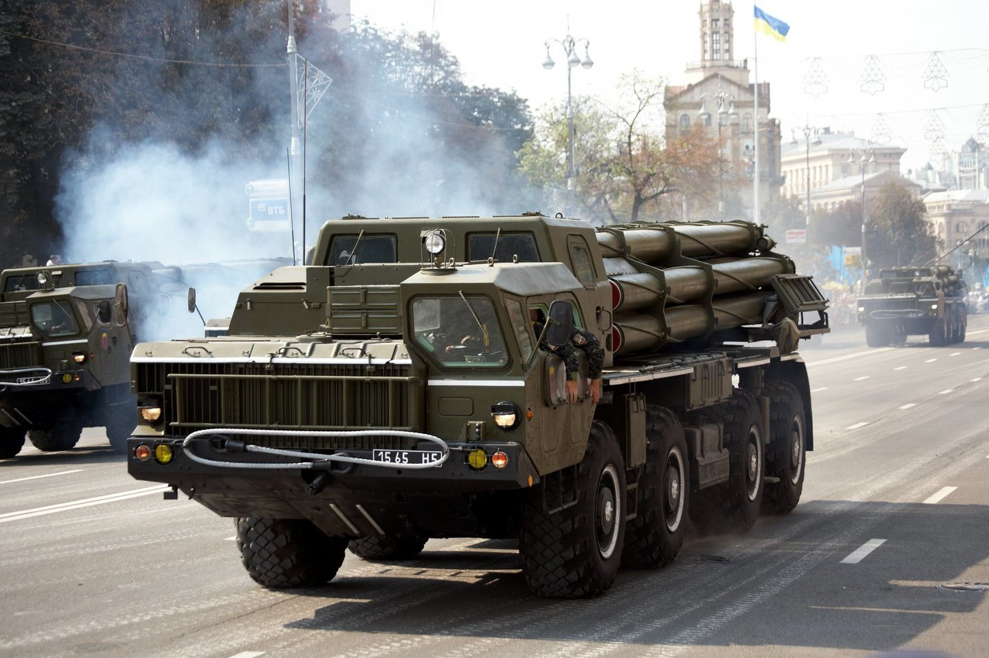 Ukrainian BM-30 Smerch launchers during the Independence Day parade in Kiev, Ukraine in 2008.